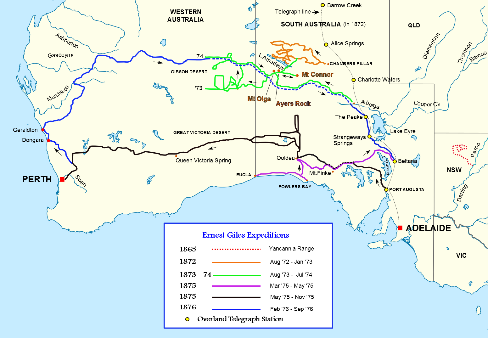 Map of the expeditions of Ernest Giles. Sourced from 'Australia Twice Traversed' by Ernest Giles, and the Australian Geographic Map of Australian Explorers (1995). Base map by User:NordNordWest